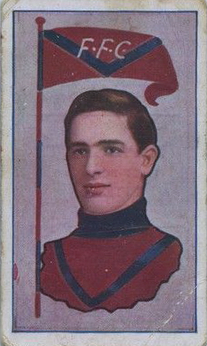 Cigarette card of Percy Parratt from the 1912 Sniders & Abrahams series.